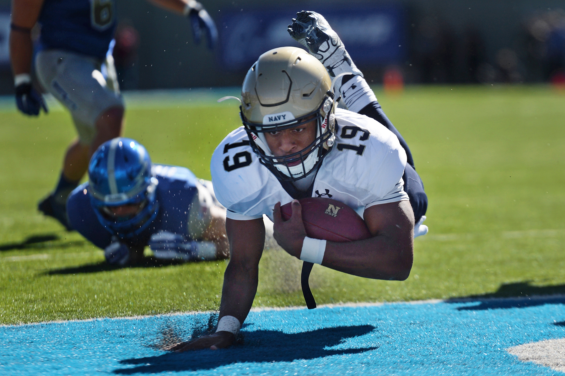 Navy quarterback Keenan Reynolds lands in the end zone for a touchdown against Air Force at the Air Force Academy in Colorado Springs, Colo. Oct. 4, 2014. Air Force won the game, which honored the athletes in the 2014 Warrior Games. (DoD News photo by EJ Hersom)